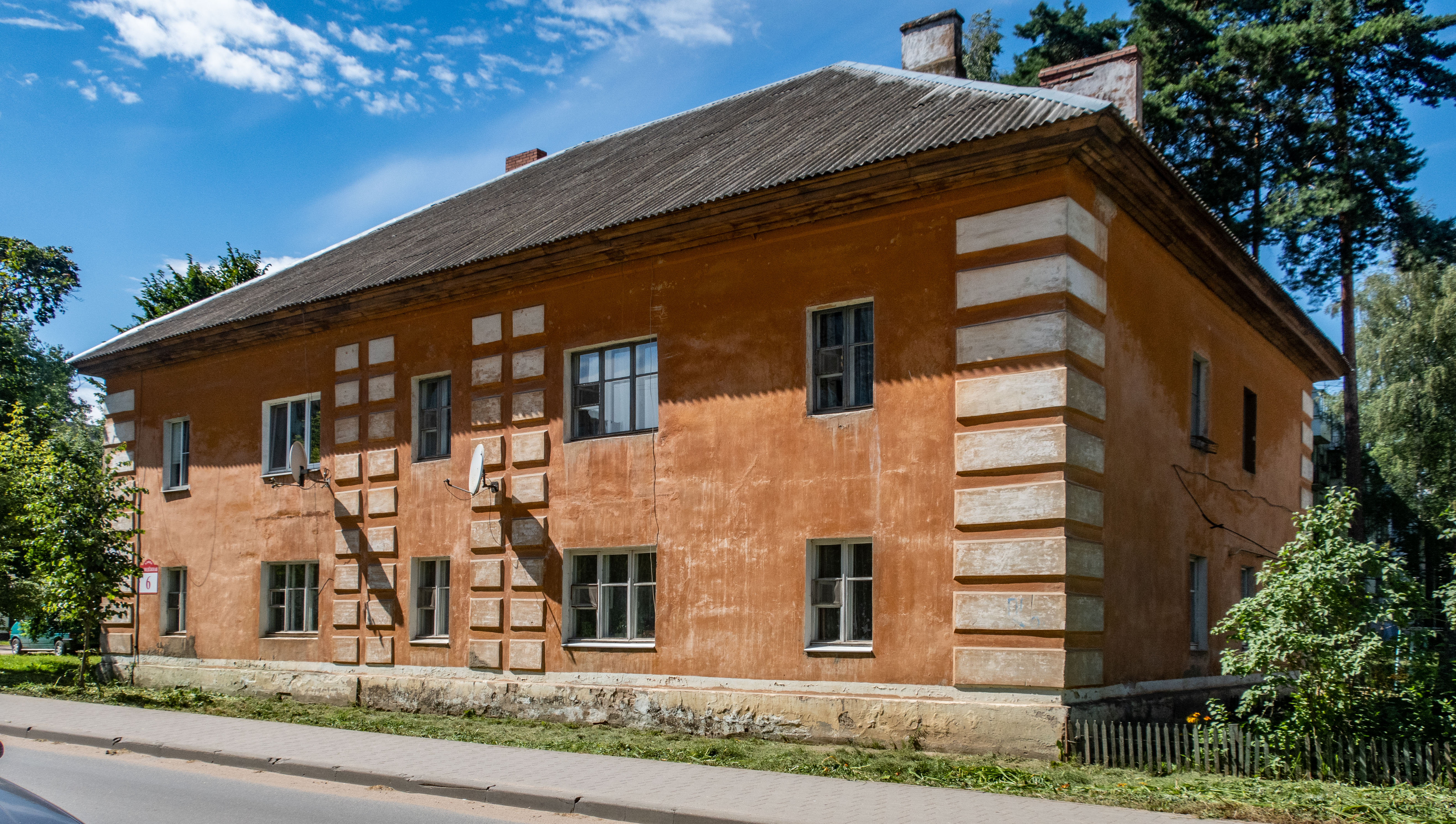 Mačuliščy (Machulishchi). Minsk district, Belarus